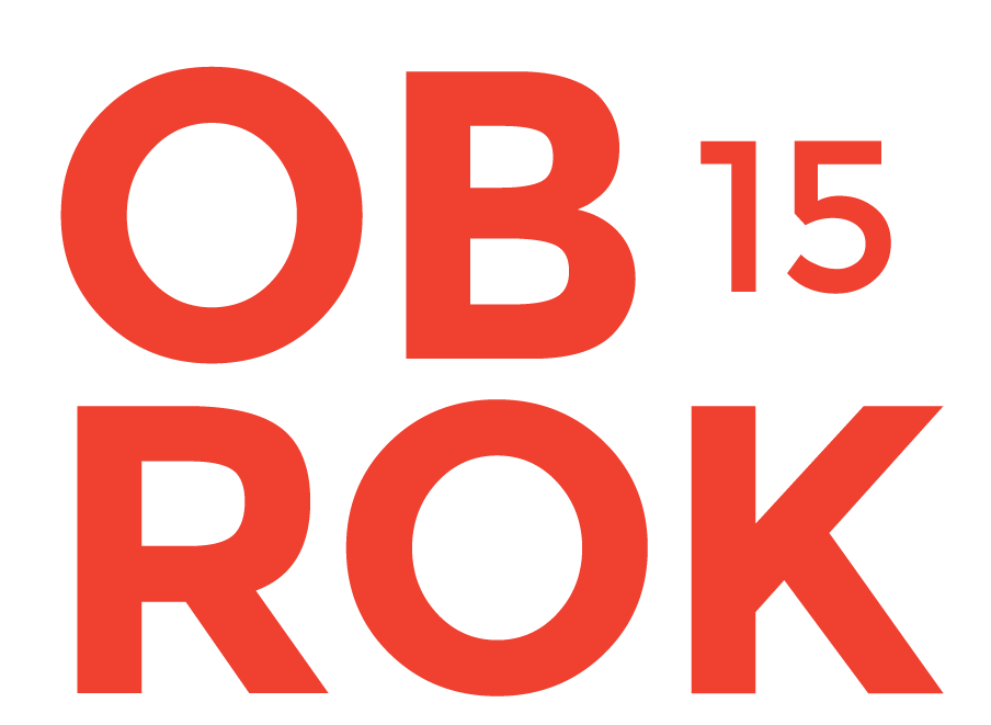 The logo of Obrok (festival)